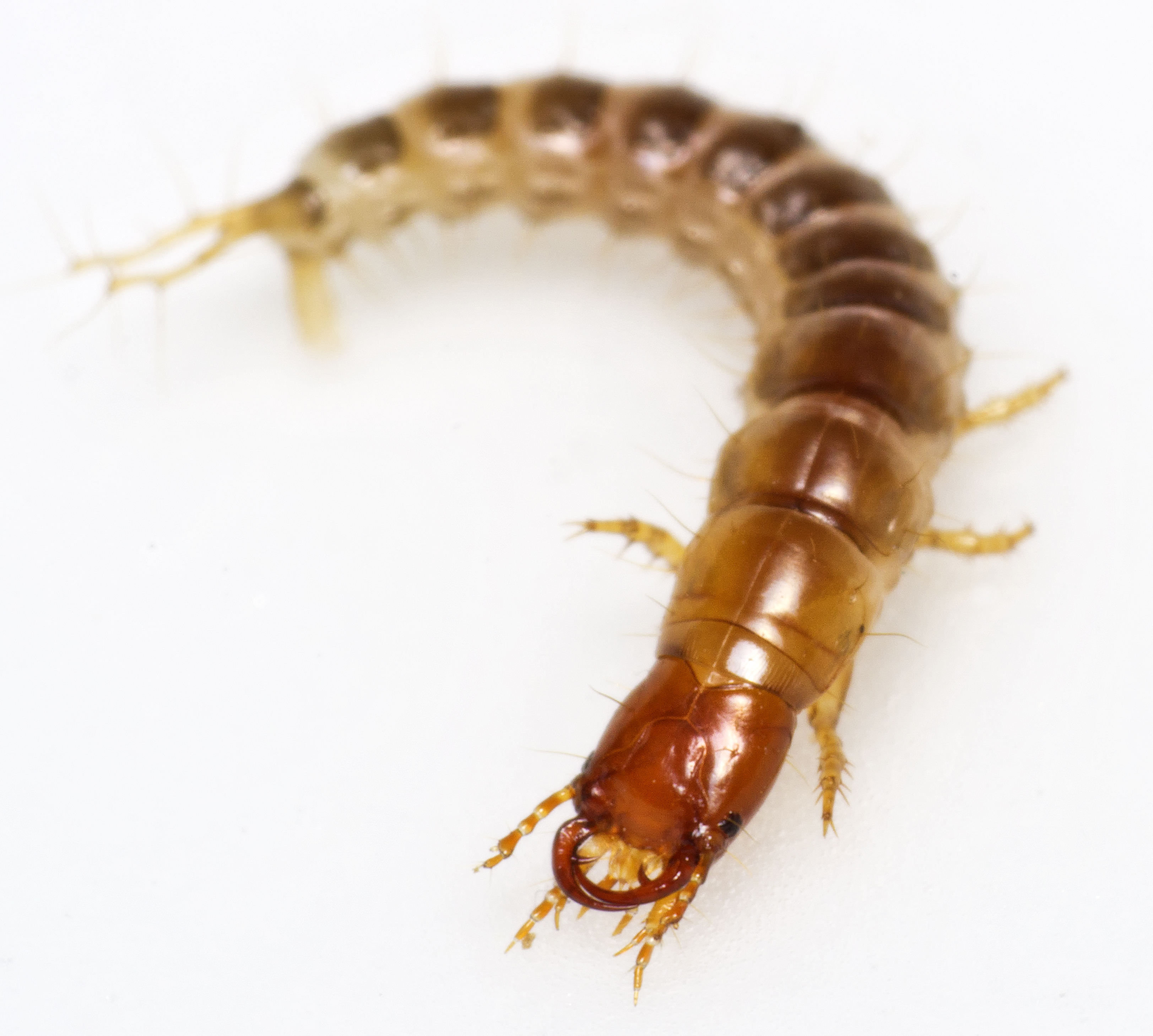 A Carabid ground beetle larva. I can't be sure what species this is but I'm pretty confident it's Pterostichus spp. This really needed a focus stack but the little devil would not keep still.